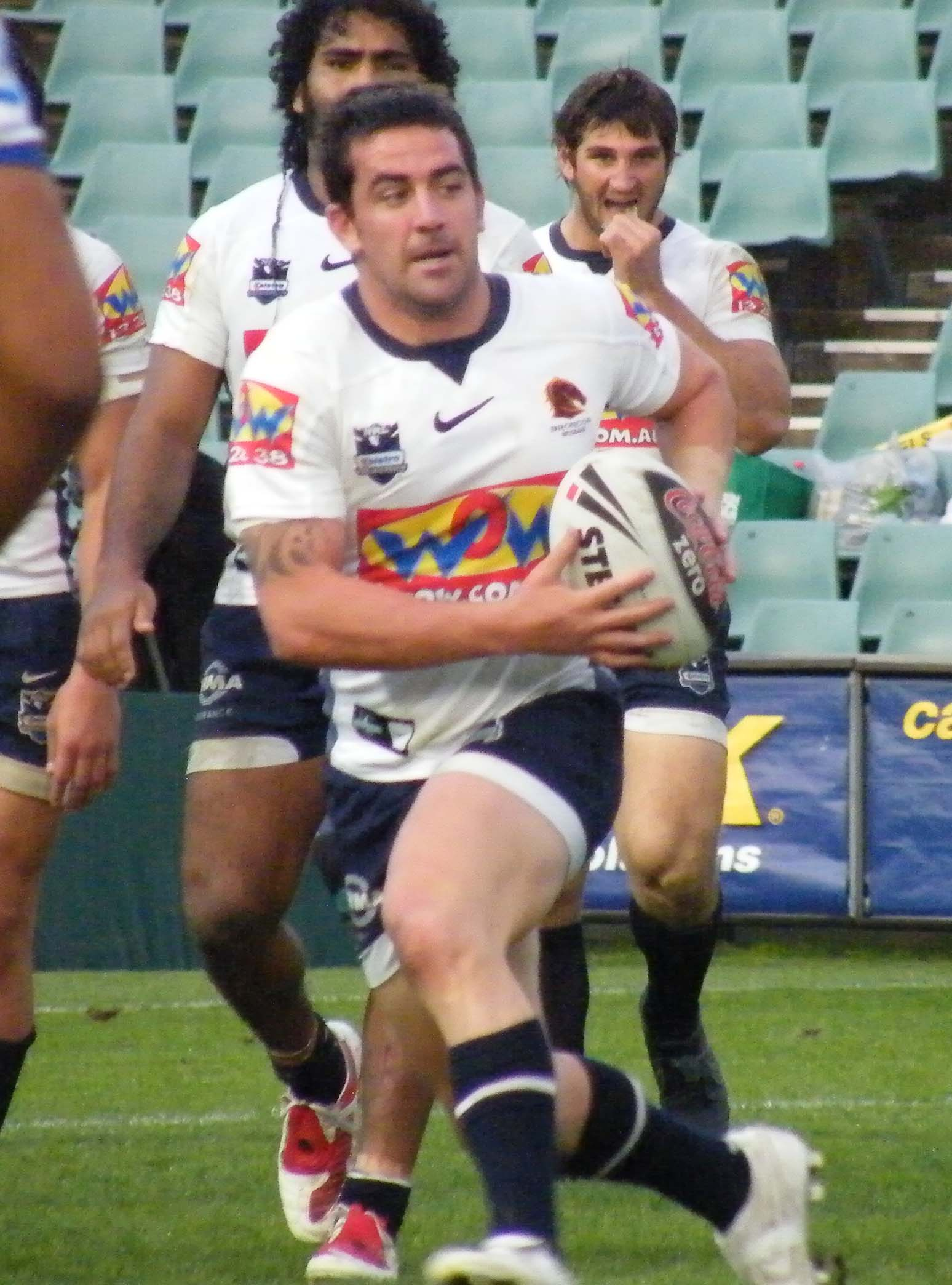 Aaron Gorrell of the Brisbane Bronco's